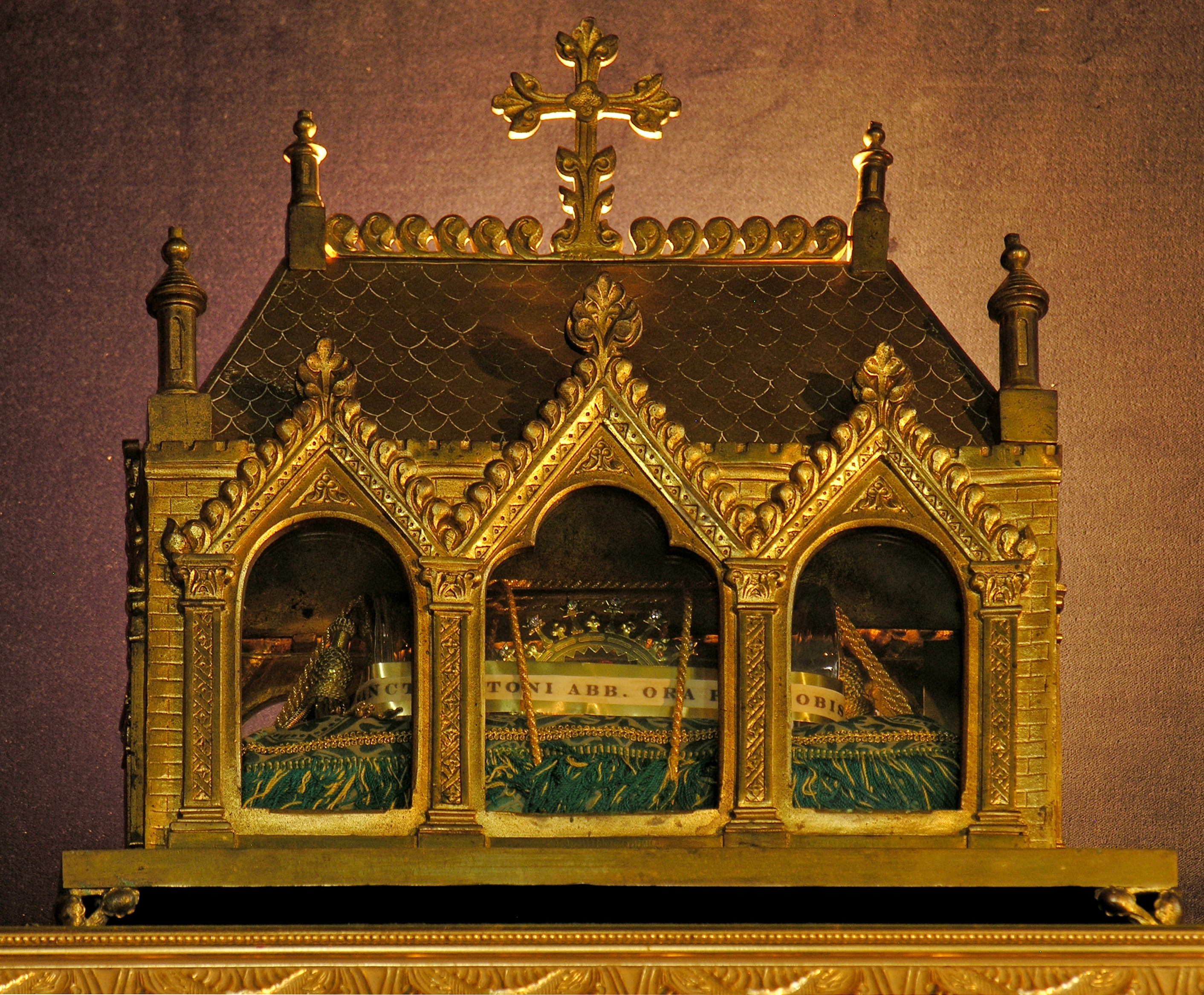 Detail of the reliquary of St. Anthony Warfhuizen